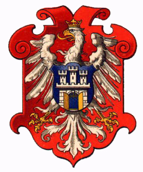 Coat-of_Arms of Grand Duchy of Krakow, 1846-1918